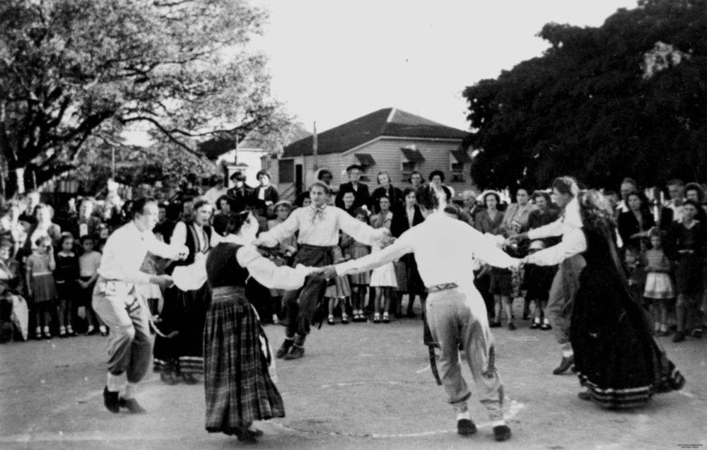 Latvian folk group dancing, Brisbane, 1953 The Latvian folk dance group Senatne performing at the celebration of the coronation of Queen Elizabeth II. A crowd watches the mixed group dancing in a circle with linked hands.